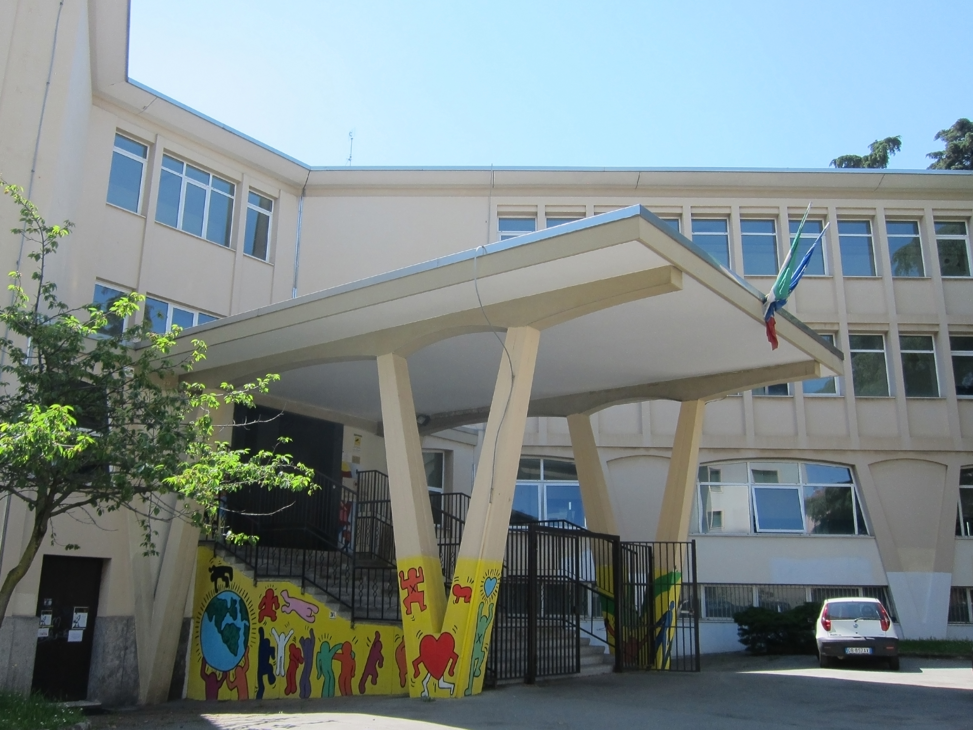 The entrance and the school gates of the "Scuola secondaria di primo grado Bonvesin de la Riva". The school building is located in via Bonvesin de la Riva in Legnano, MI, Lombardy, Italy. Picture taken on the 20th of may 2020. 2020-05-20